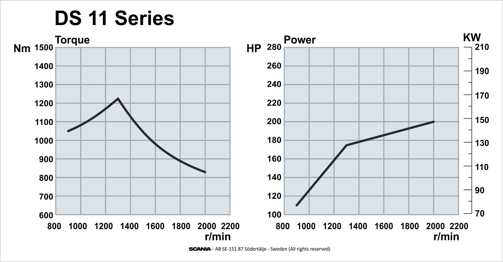 Engine Power